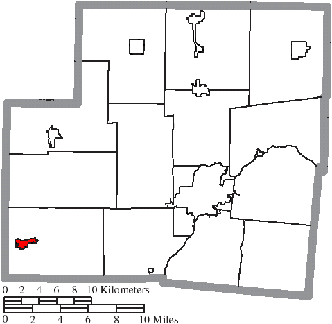 Map of the municipal and township boundaries of Shelby County, Ohio, United States, as of the 2000 census, with the location of the village of Russia highlighted. Township borders are shown only in unincorporated areas in order to differentiate incorporated and unincorporated areas more clearly.